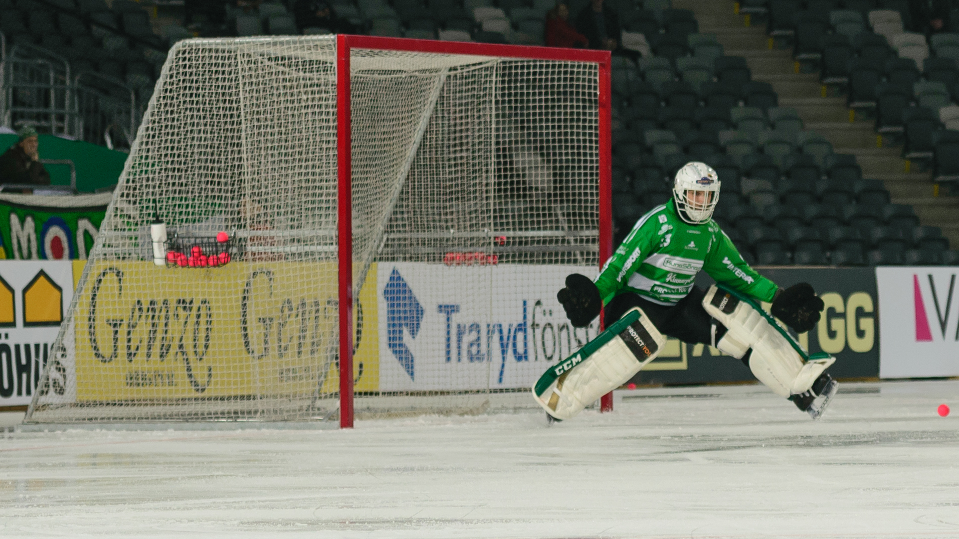 Swedish men's bandy championship final game of 2015, Sandvikens AIK (black)-Västerås SK (green/white) 4-6. Västerås goalkeeper Andreas Bergwall in action.